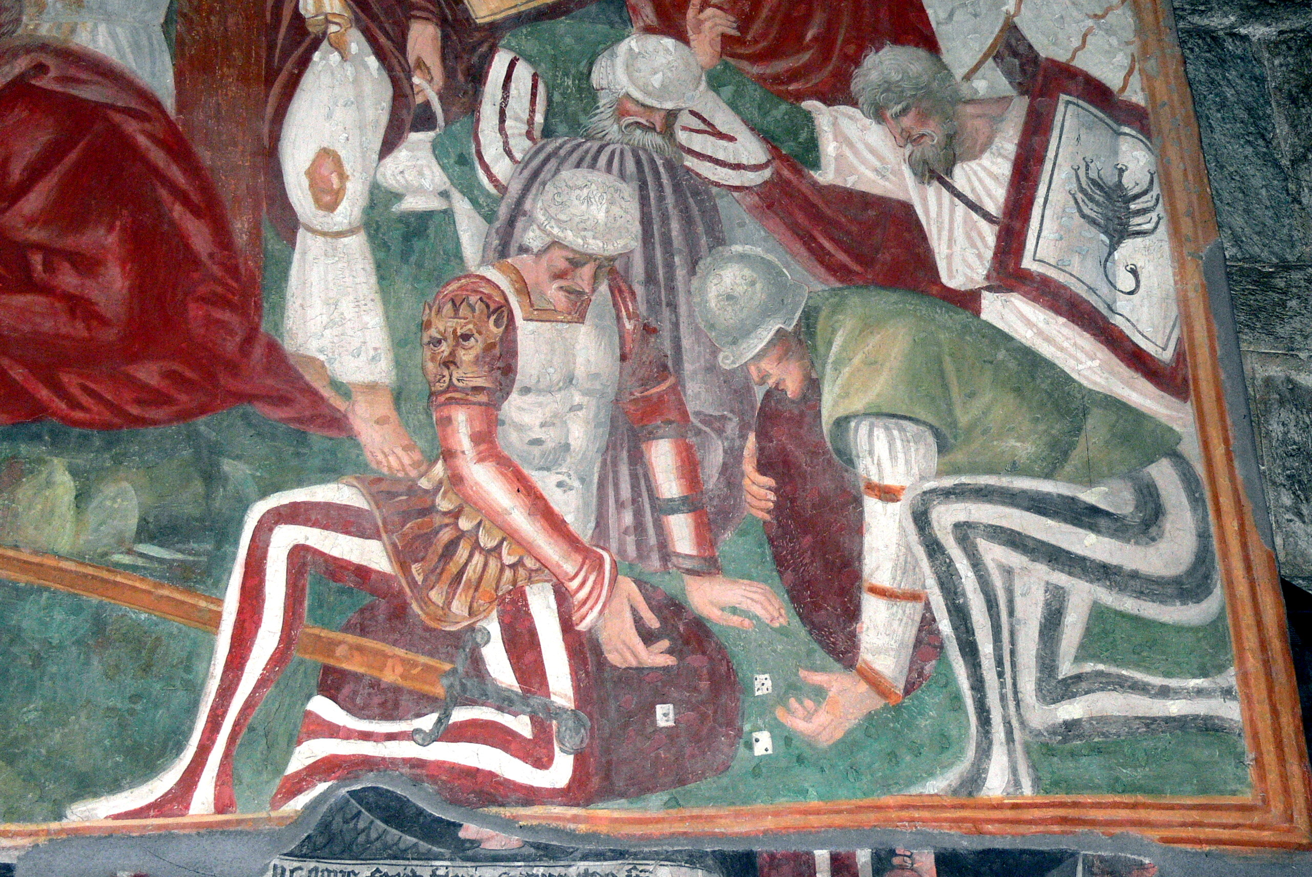 Saint-Vincent ( Aosta Valley ). Saint Vincent parish church - Crucifixion ( 1535 ) by Filippo of Varallo ( detail ): Soldiers gambling about the clothes of Christ.